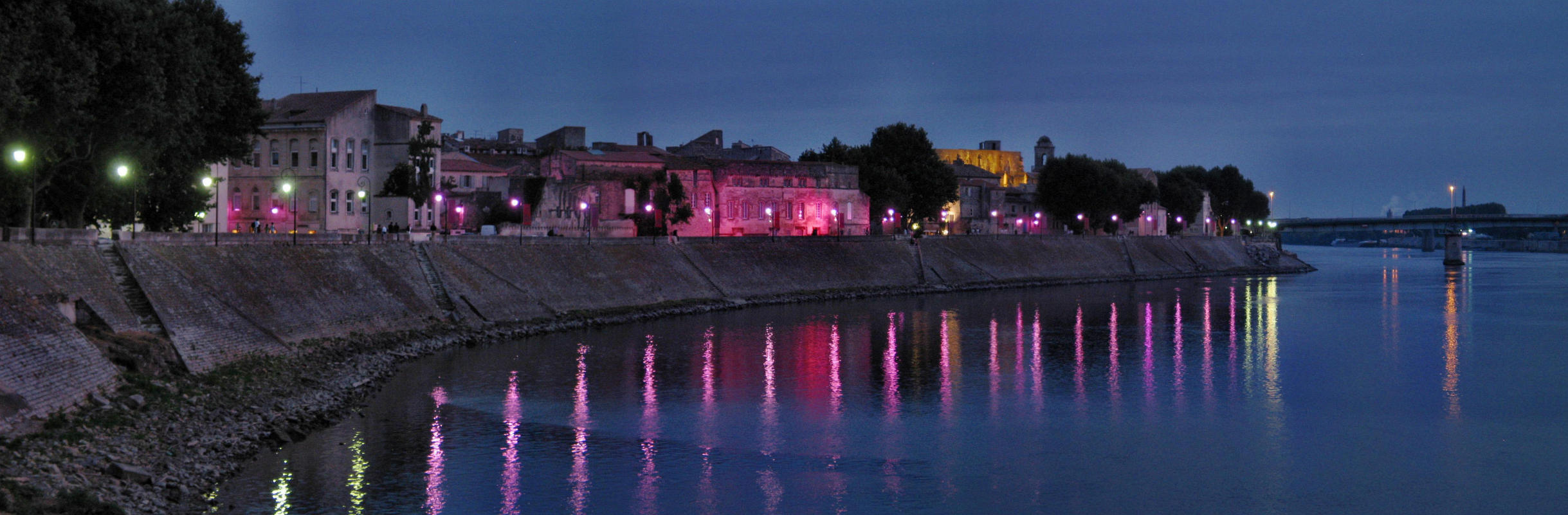 France, Arles: For the 2008 Rencontres internationales de la Photographie the "quartier" of Musée Reattu was temporarily illuminated in magenta. Musée Réattu was internally completely rearranged by Christian Lacroix, fashion designer, guest curator of the Rencontres d'Arles 2008